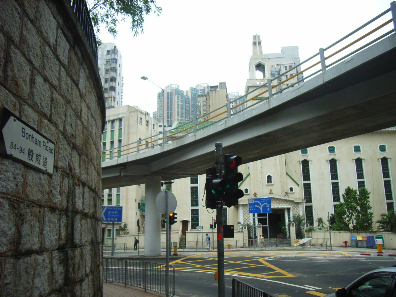 HK Bonham Road, Mid-level Photograph taken by MCLB from Hong Kong